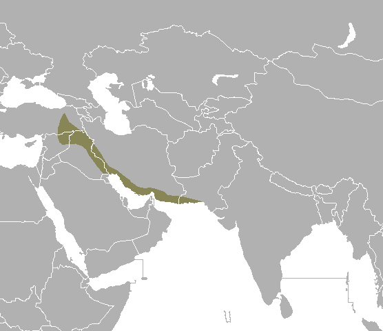 Elephas_maximus_borneensis map